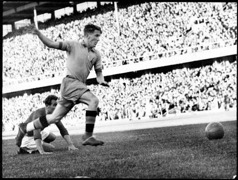 Stellan Nilsson during the Sweden-Norway (4-1) international game at Råsunda Soccer Stadium, 5 October 1947.